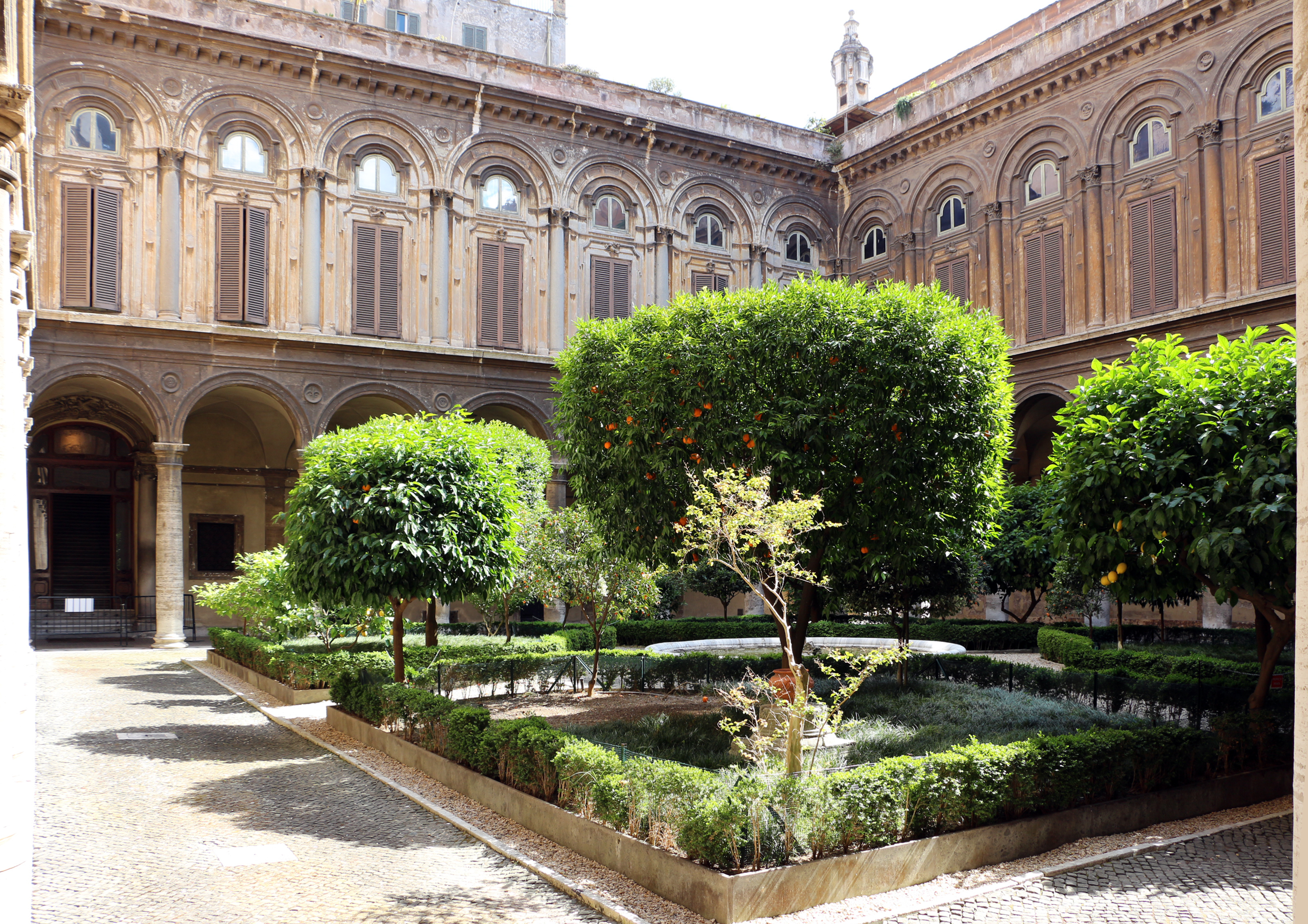 Palazzo Doria Pamphilj (Rome)